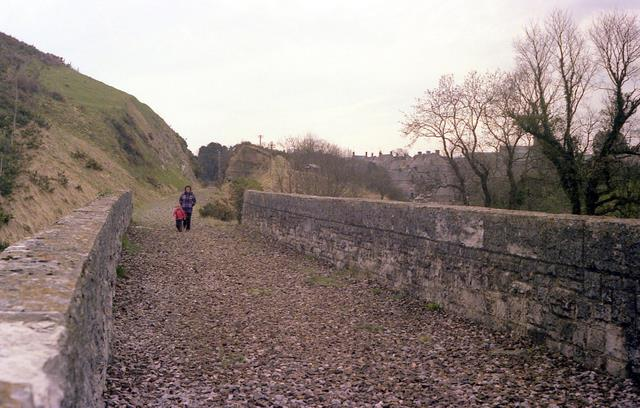 Lest we forget - The Swanage branch line in 1979 The bridge over the B3351 road, looking towards the cutting through East Hill, just to the north of Corfe. Photographed some 7 years after the closure and lifting of the branch in 1972. The Swanage branch was not a victim of the infamous Beeching cuts, but of a later review initiated by the Labour minister Barbara Castle. The prevailing government view was that most rail passengers were from the 'better-off' sector of the population so rail subsidies were something of an anathema to a socialist regime. Although financial losses of the branch were only marginal, and despite a public enquiry which judged that the line should remain open, it was closed under the auspices of the then Conservative government in 1972. The closure was carried out in the face of universal concerns over the ability of the Isle of Purbeck to accommodate the extra road traffic that would be generated during the summer months. The stalwarts of the Swanage Railway have worked for 35 years to rebuild the line and the Norden park and ride scheme has made a significant contribution in reducing the traffic levels in Swanage. Nobody can now dispute the importance of the line but, although a permanent connection with the rail network has now been re-established, there are still issues regarding running trains onto the main line so no regular trains yet connect Swanage with Wareham. The closure of the line was a shameful exercise in short-termism and demonstrates that we must always be on guard to counter the excesses of our political "masters". Swanage Railway web site